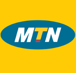 The logo of MTN